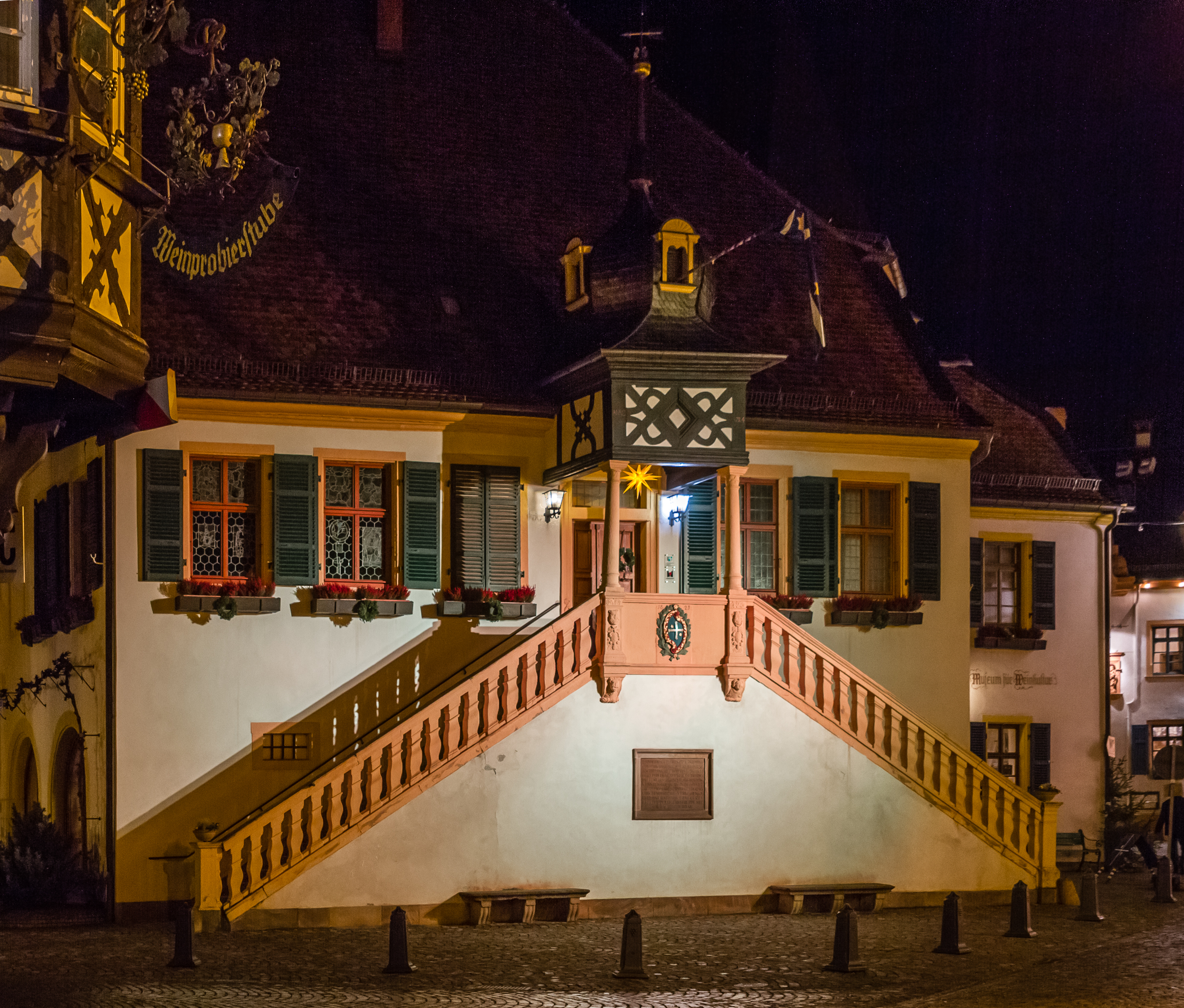 This is a photograph of an architectural monument.It is on the list of cultural monuments of Deidesheim Designation: Historical town hall Construction time: 2nd quarter of 16th century, renewal 1709 Description: Half hipped roof building Ground floor with formerly open hall designated 1532, steps and main entrance porch designated 1724, municipal coat of arms designated 1821. Annex with half hipped roof, to the south building of the 18th century. Place: Municipality Deidesheim, Collective municipality Deidesheim, District Bad Dürkheim, Rhineland-Palatinate, Germany Location: Marktplatz House number: 9